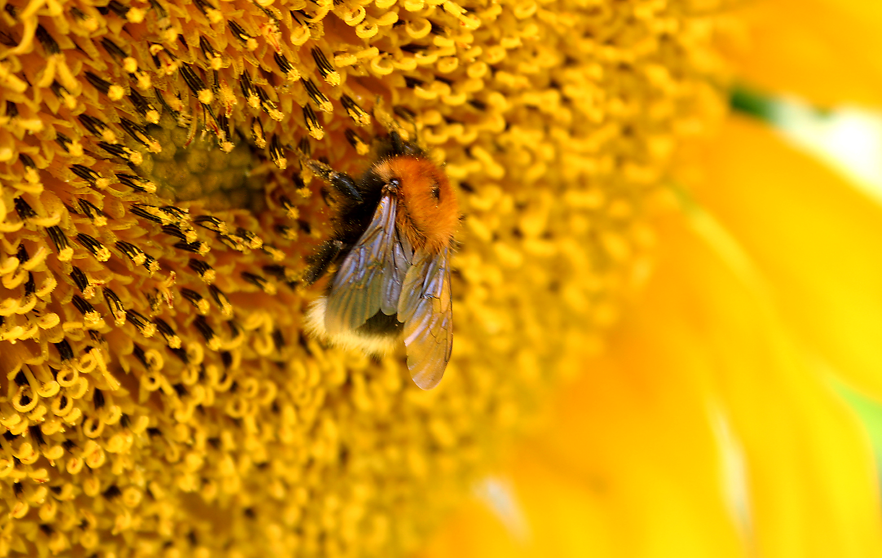 Bumble-bee Bombus hypnorum on a sunflower